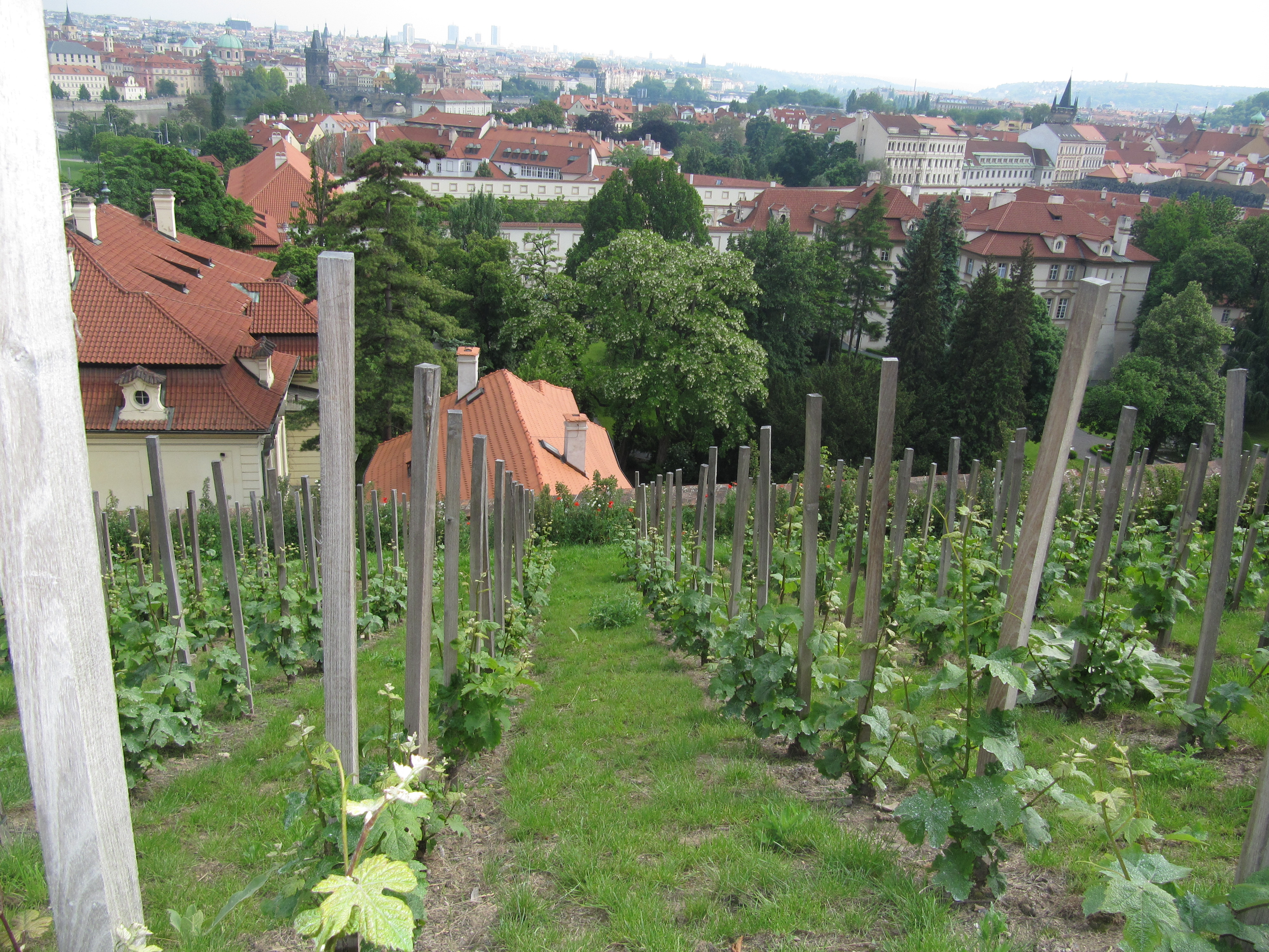 Prague, Czech Republic. Saint Wenceslas’ Vineyard at the Prague Castle.